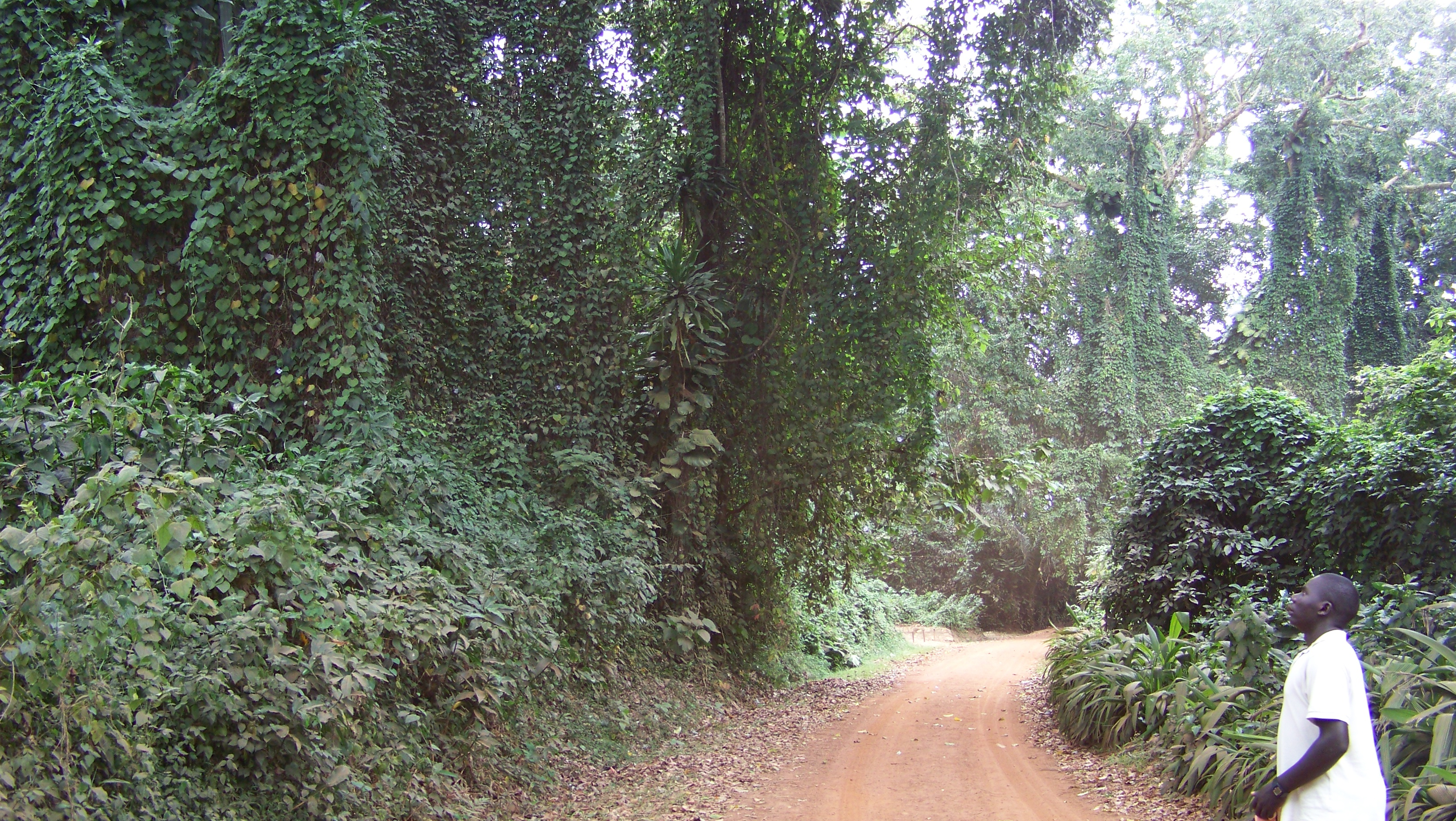 Botanical Garden of Entebbe, Uganda.